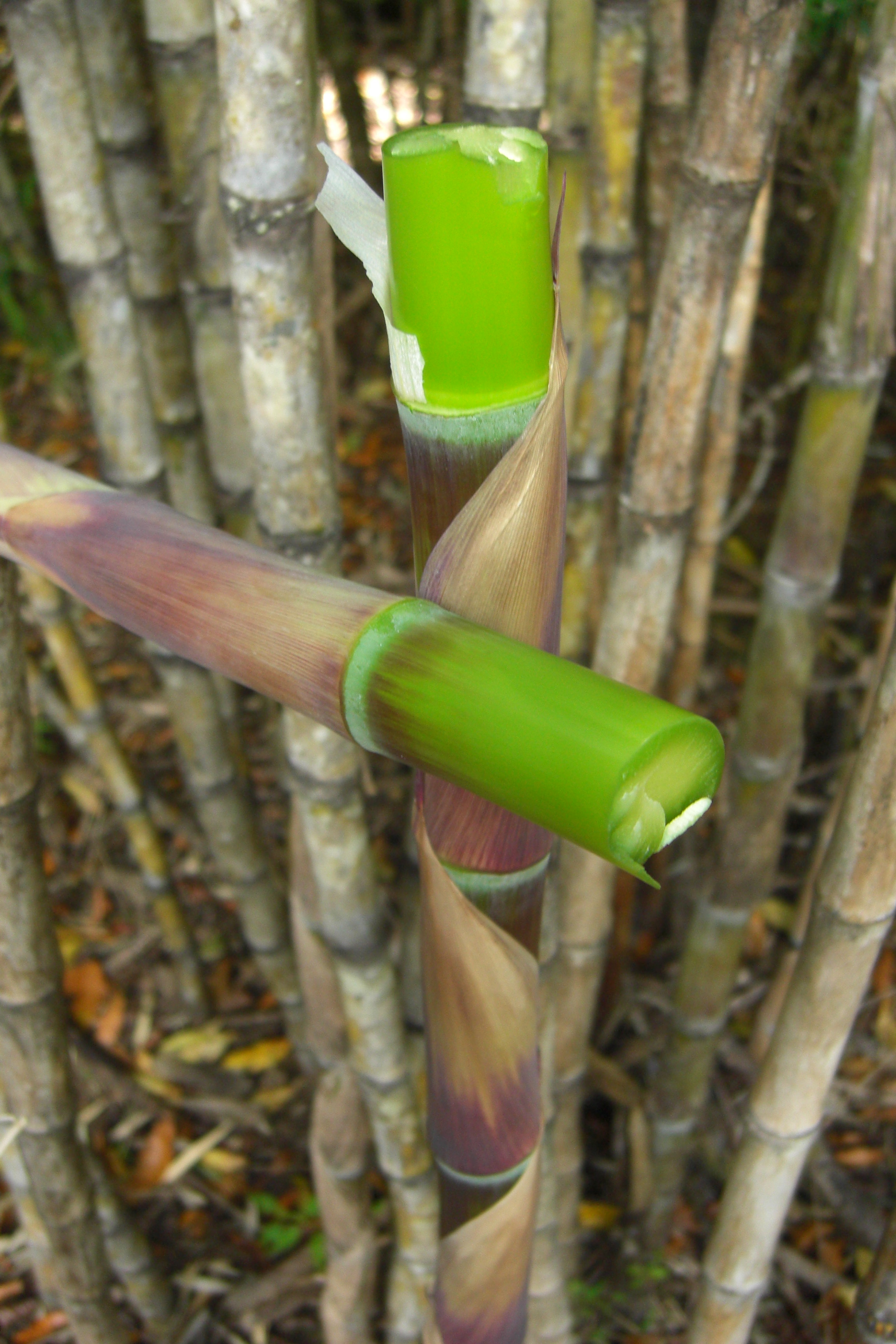 Chusquea quila Kunth. 20081222 Parque Nacional Puyehue, Chile This picture shows the "unusual" solid culms. Note the thickness of the fresh culm -- this is about an inch or more in diameter. When fresh like this it snaps in two with ease. After it ages a bit it becomes solid as, well, wood.